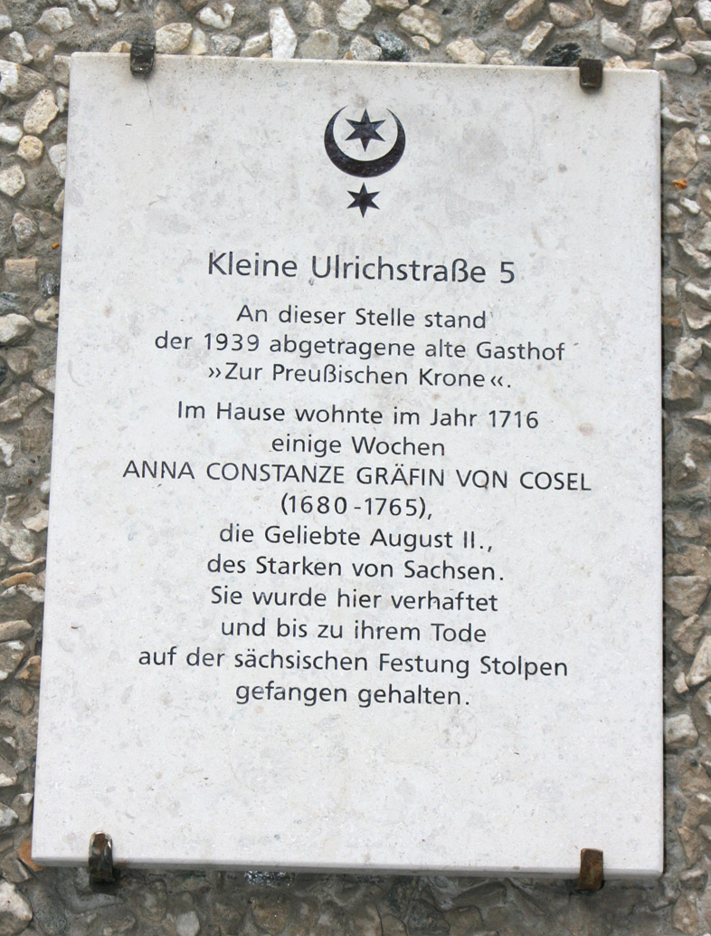 Memorial tablet at house in Kleine Ulrichstraße 5, Halle (Saale), Germany: Anna Constantia Countess of Cosel was arrested at this place in 1716